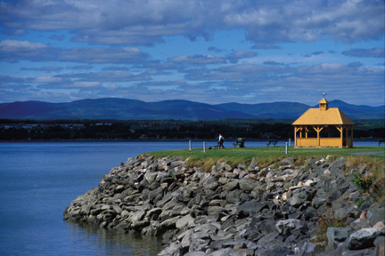 Landscape, Saint-Michel-de-Bellechasse - Chaudière-Appalaches (Québec, Canada)